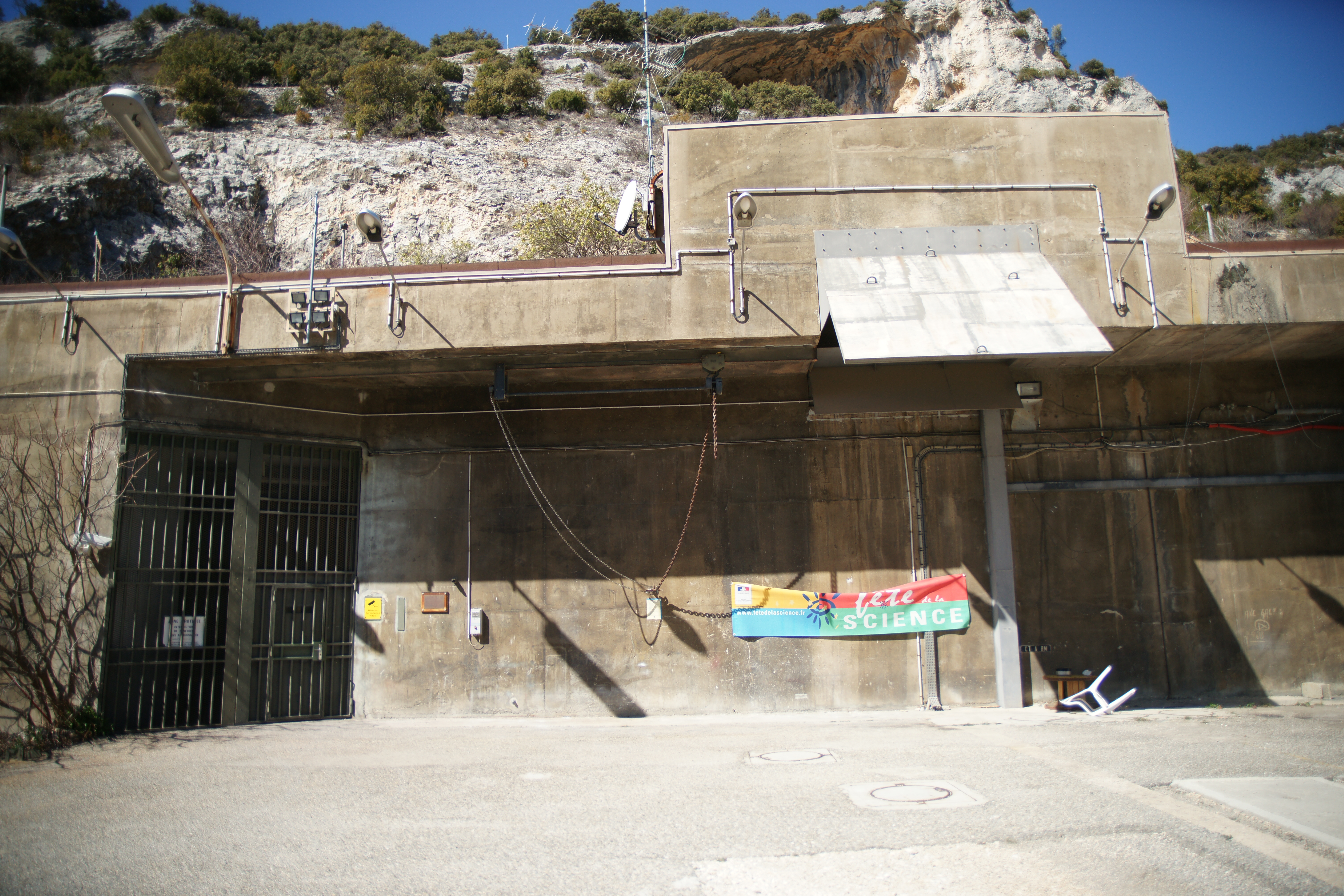 Entrance to the Low Noise Underground Laboratory at Rustrel